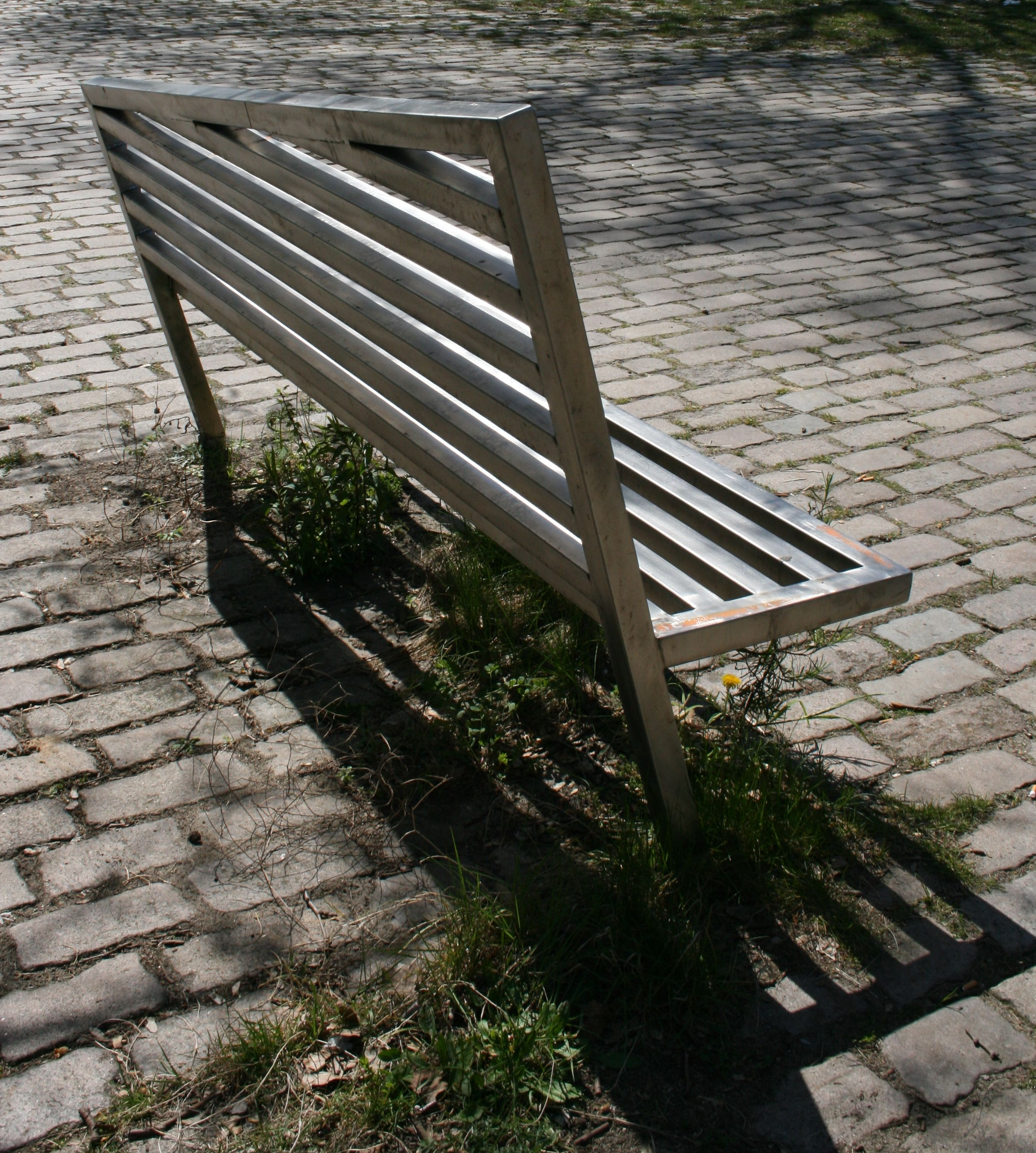 bench made by steel with its shadows, nearby Sellerbrücke, (Promenade am Berlin-Spandauer-Schifffahrtskanal), Berlin-Mitte.